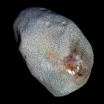 Processed image of Nix